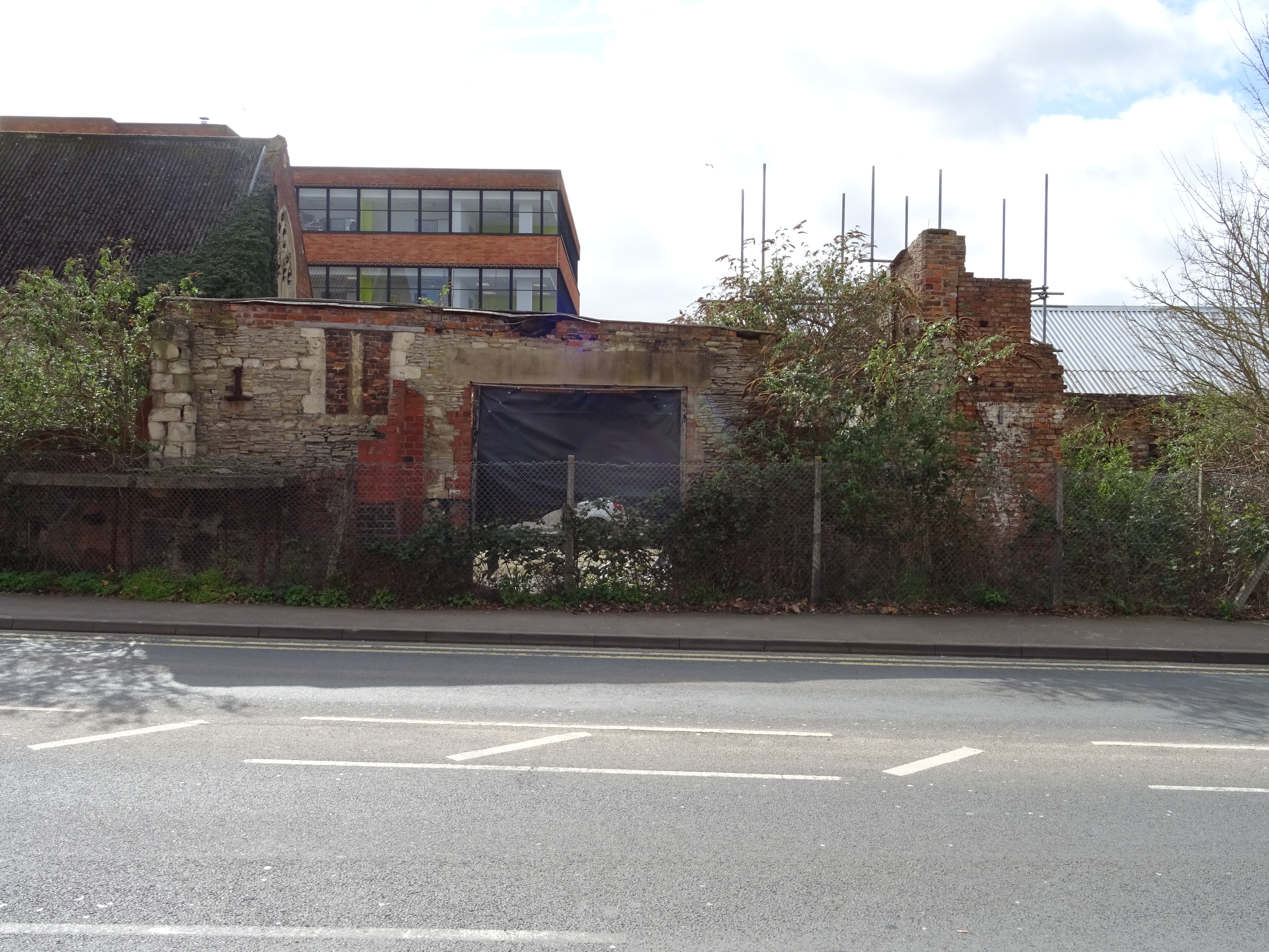 This is a photograph of Tanners Hall in Gloucester